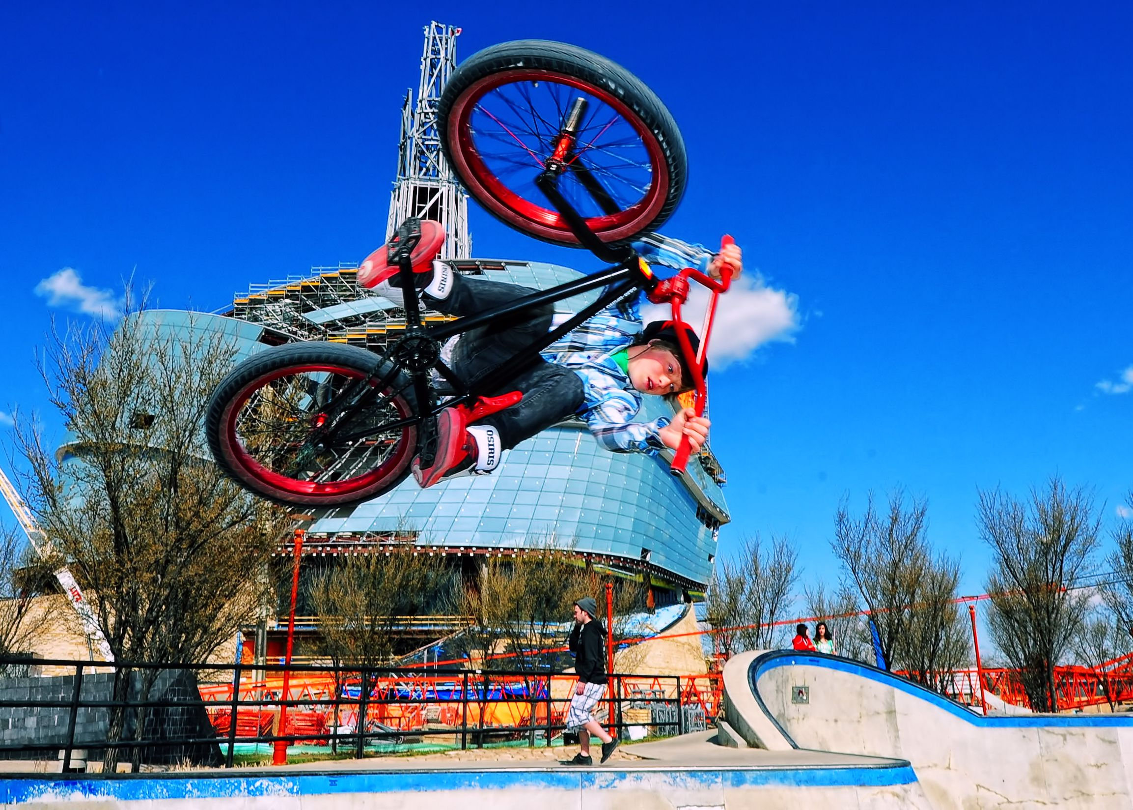 bmx bike jump